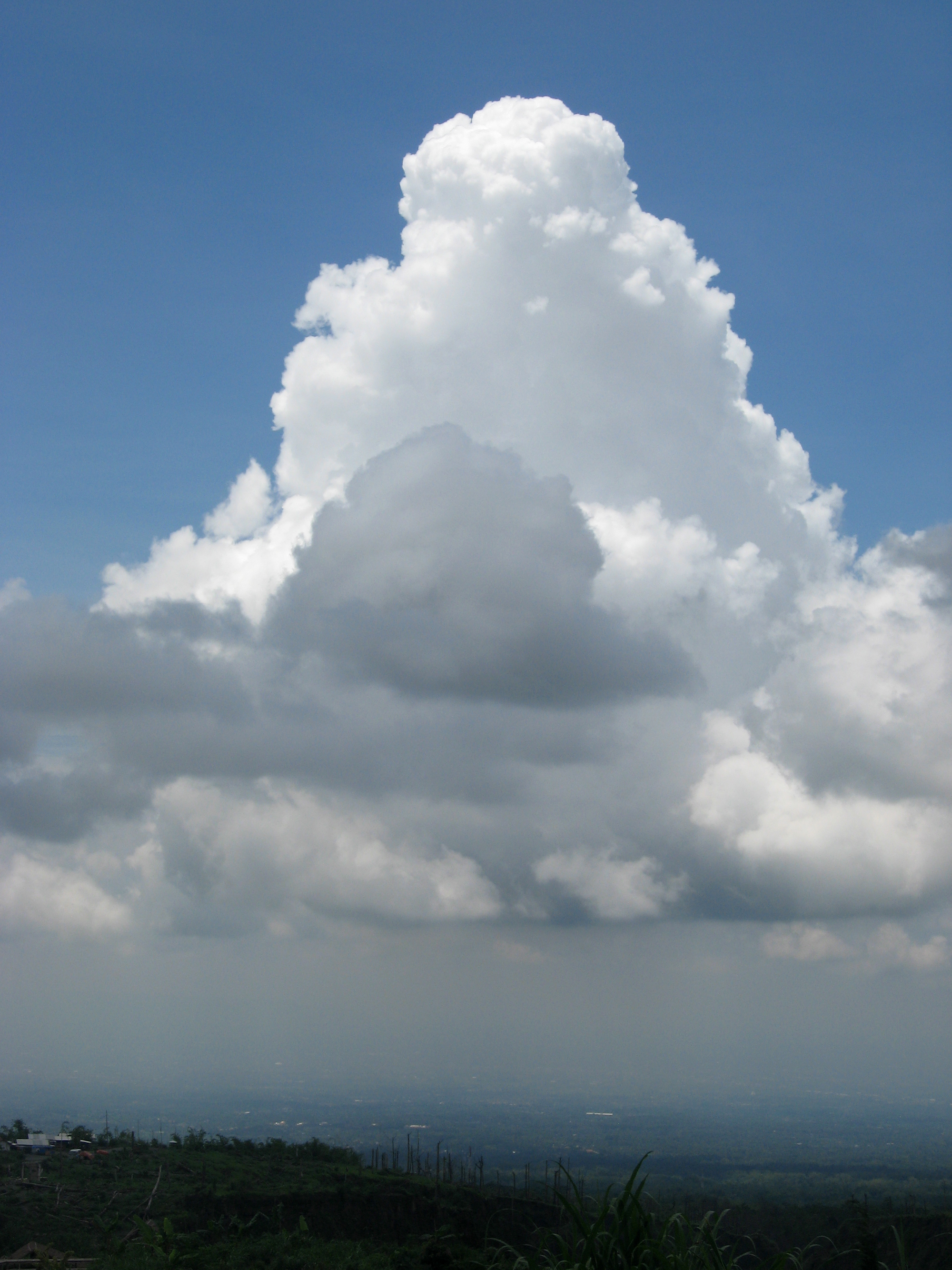 A Cumulonimbus calvus cloud over the city of Yogyakarta, Indonesia